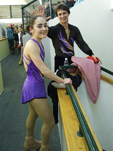 Sacks and Akolzin at 2008 Israeli Figure Skating National Championships